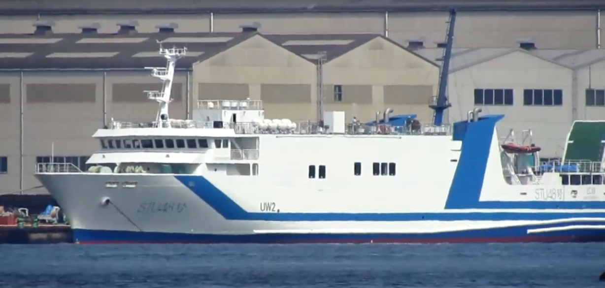 The ship STU48-go, March 23, 2019